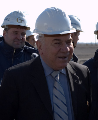 Sufian Allaw, Syrian Minister of Petroleum and Mineral Resources (2006–2013).